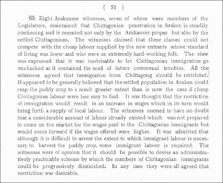 A British era report warning about unchecked Cittagongian immigration into Arakan